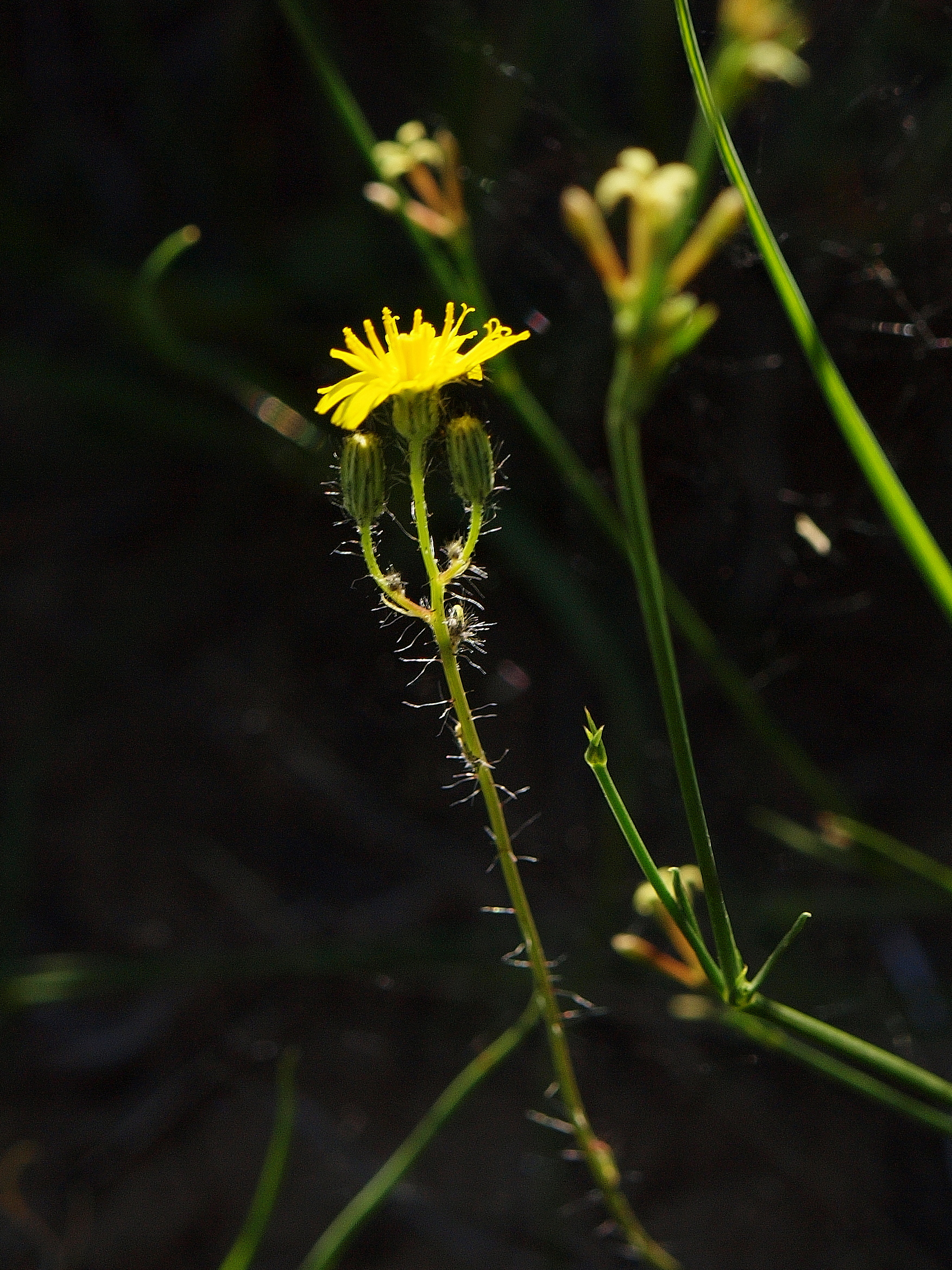 Florentiner Habichtskraut